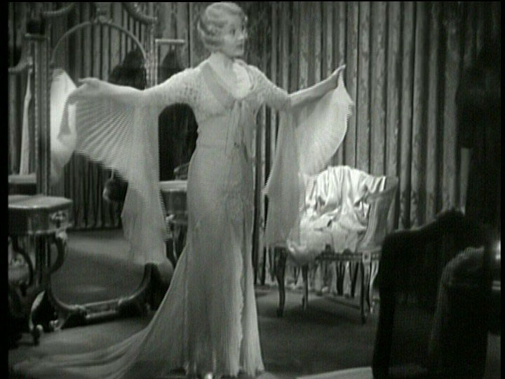 Vidcap of Betty Compson in the 1931 film, The Lady Refuses